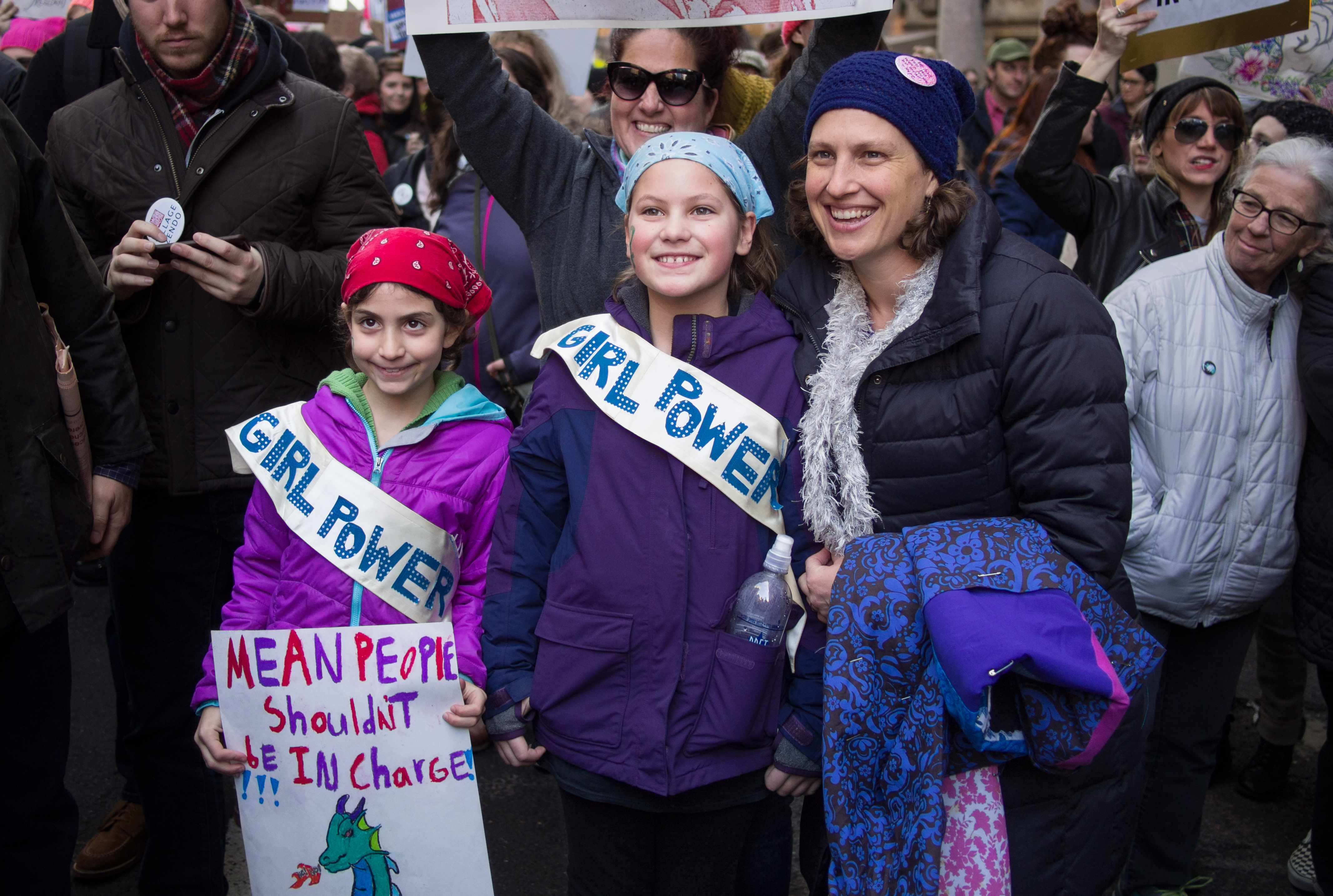 A woman with two girls in "girl power" sashes, holding a sign depicting a dragon with the text "mean people shouldn't be in charge!!!!". At the Women's March on New York City on January 21, 2017. The march was to support equality and civil rights and to oppose the presidency of Donald Trump, whose inauguration was the day before. Hundreds of thousands of people marched from Dag Hammarskjold Plaza down 2nd Ave., west on 42nd St., then north on 5th Ave. to Trump Tower.